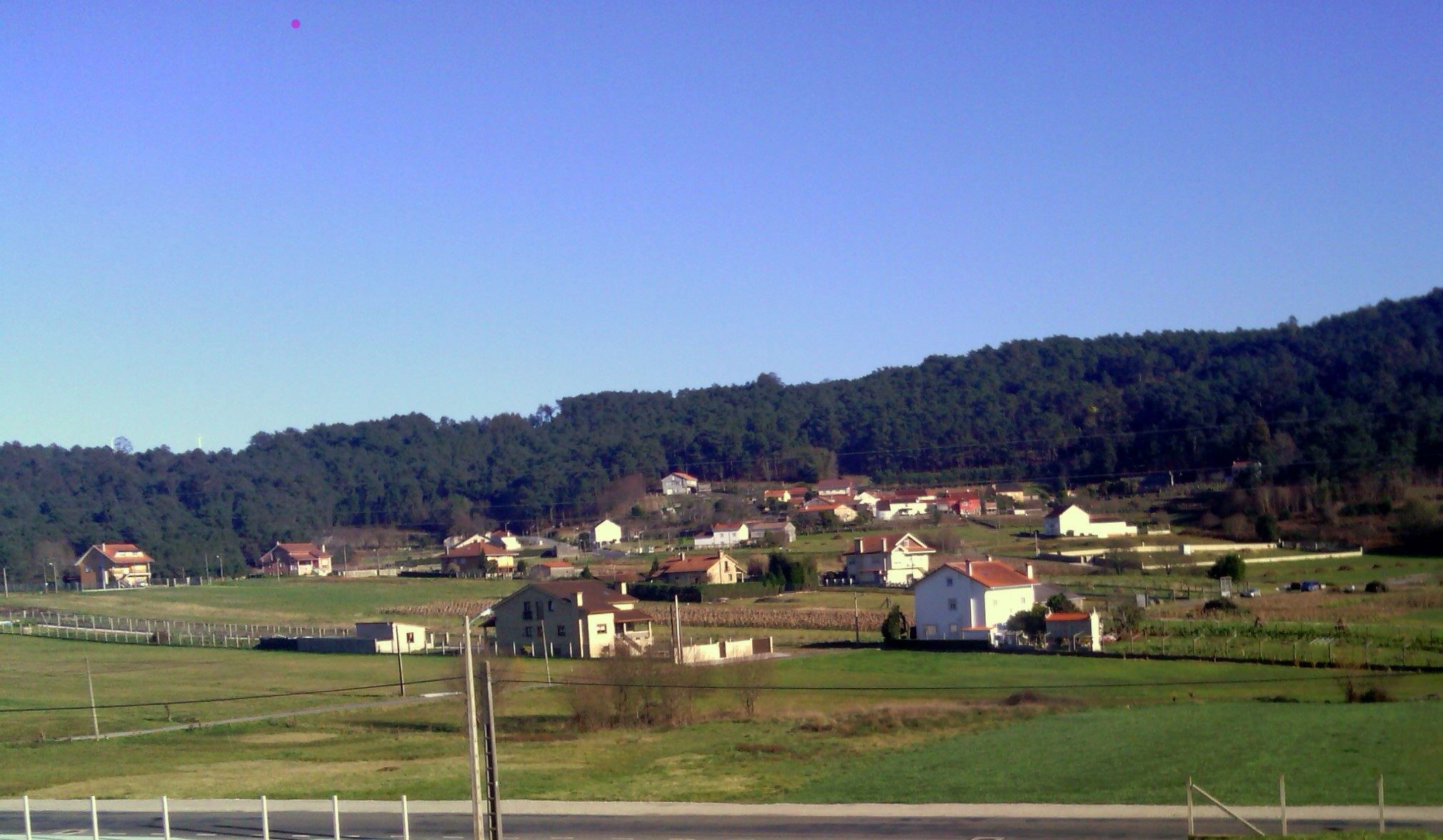 Carantoña, Lousame.